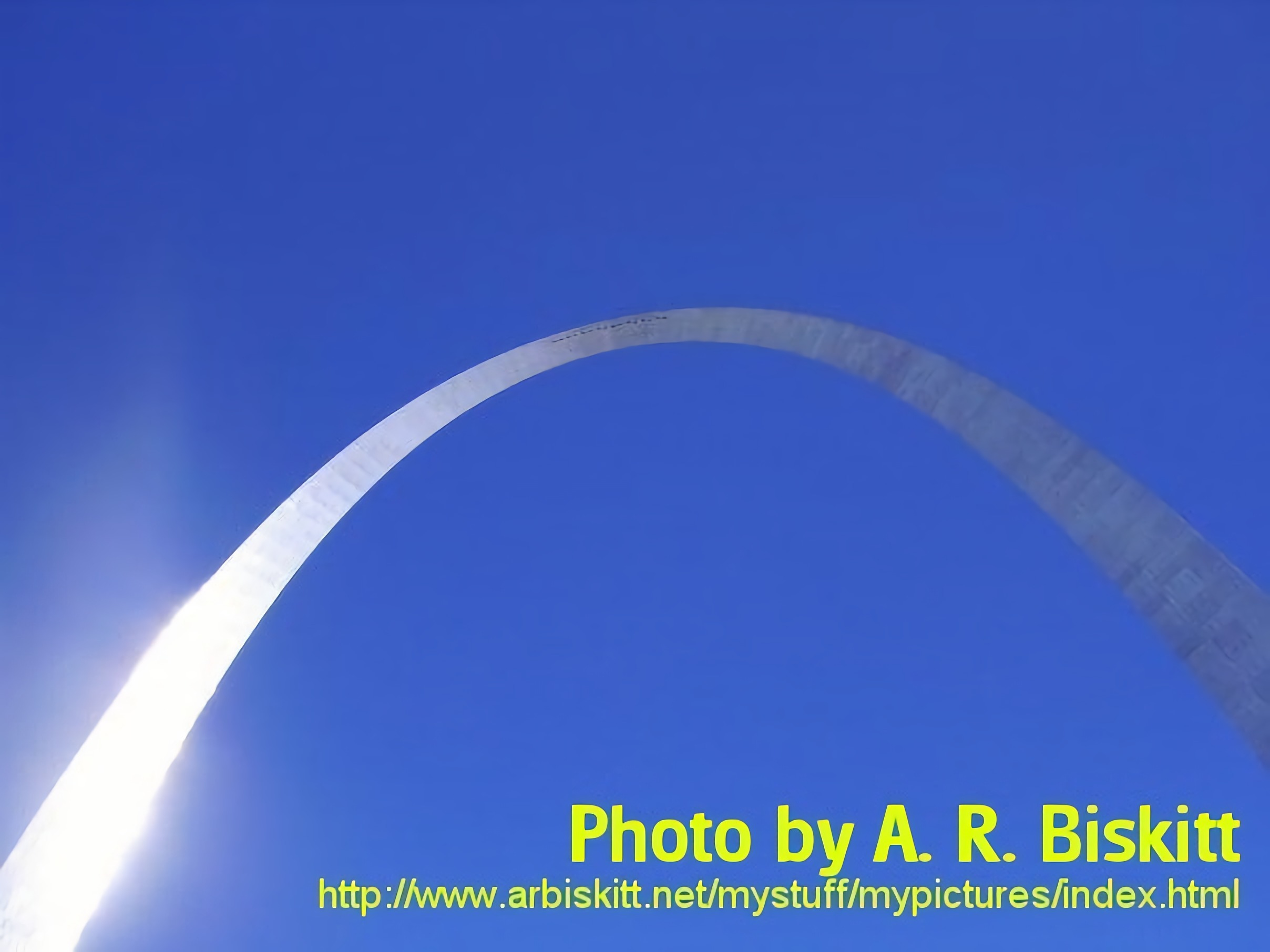 Watermark example.